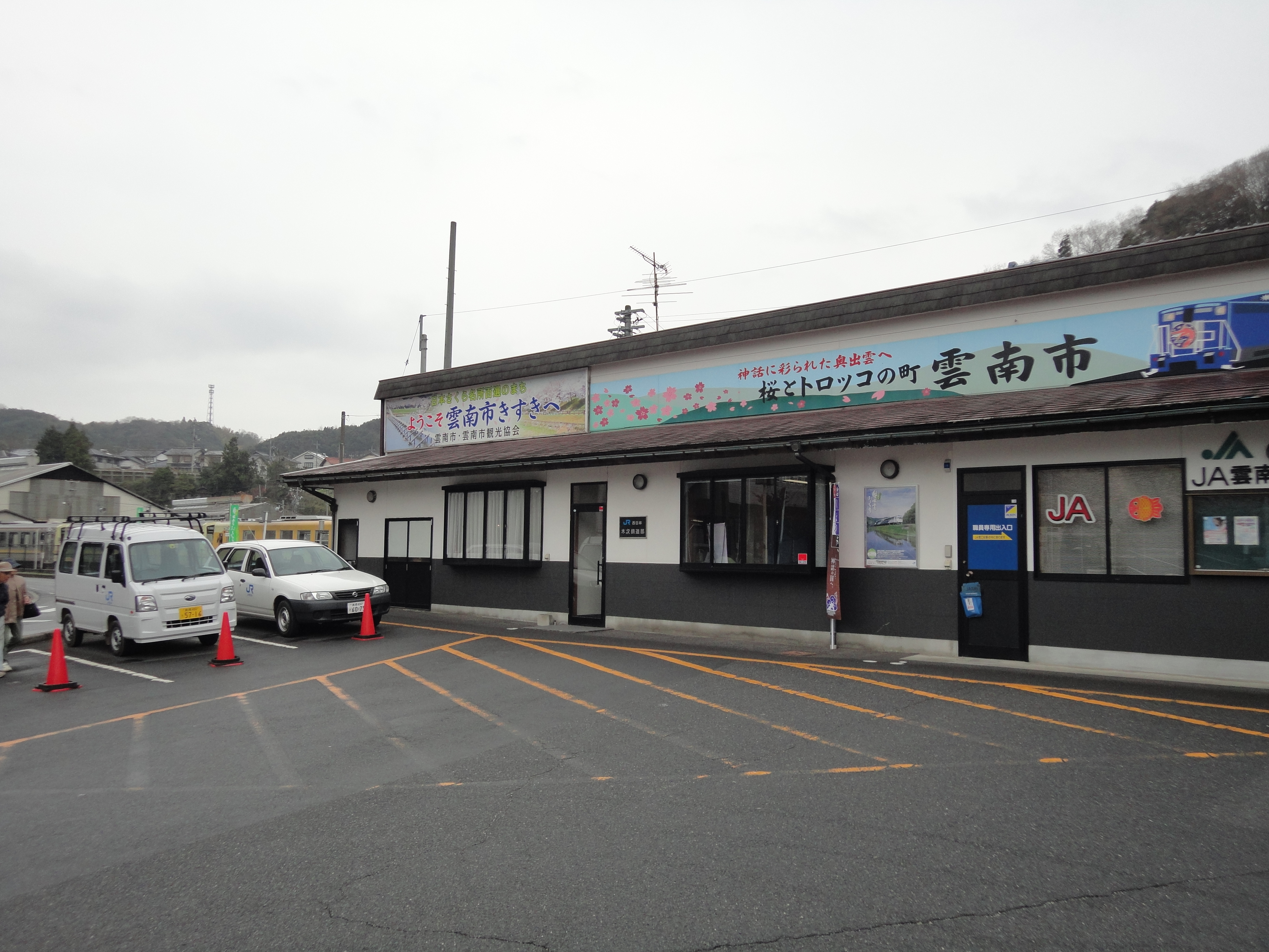 JR West Kisuki Railway Department